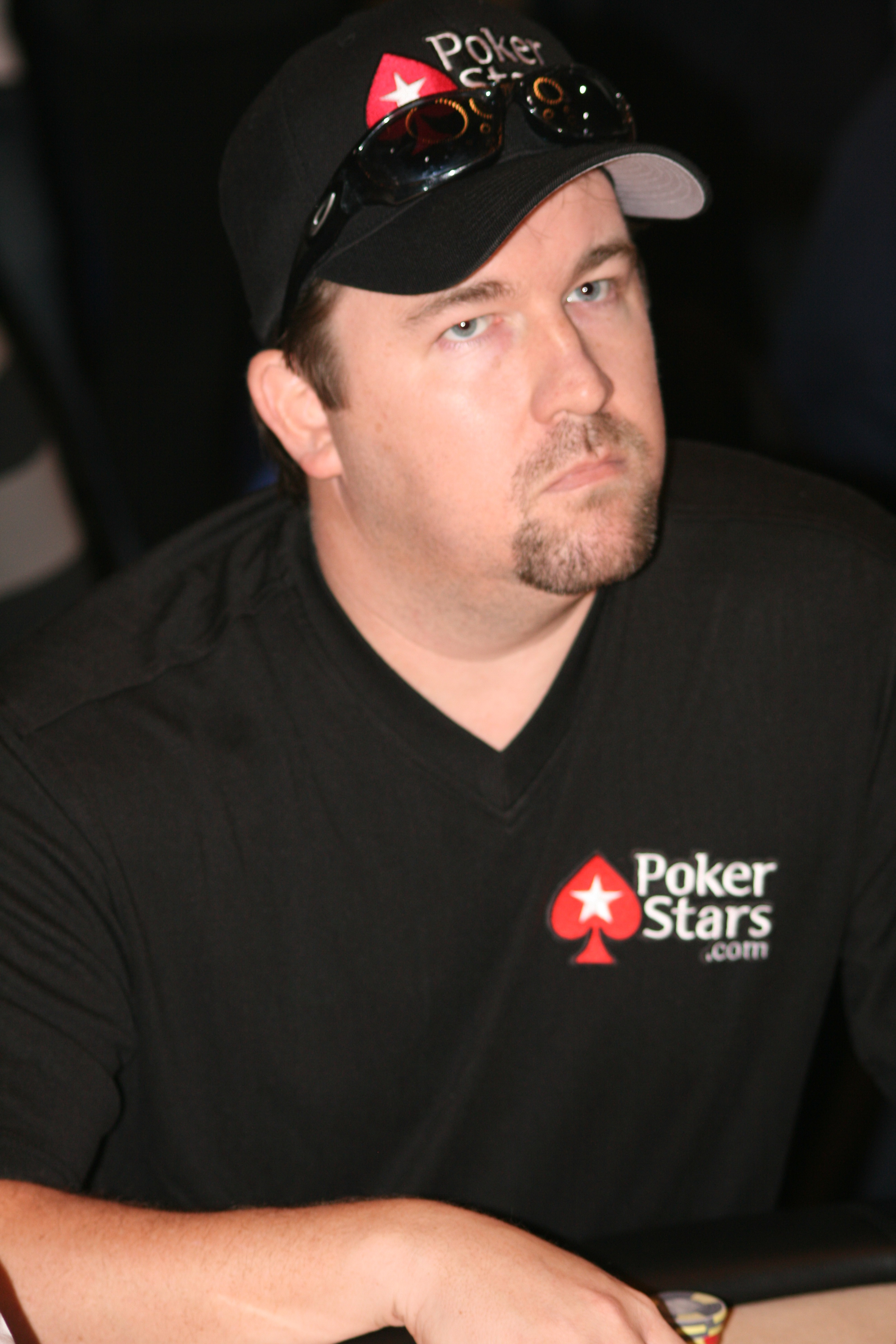 Chris Moneymaker at the EPT Grand Final in Monte Carlo